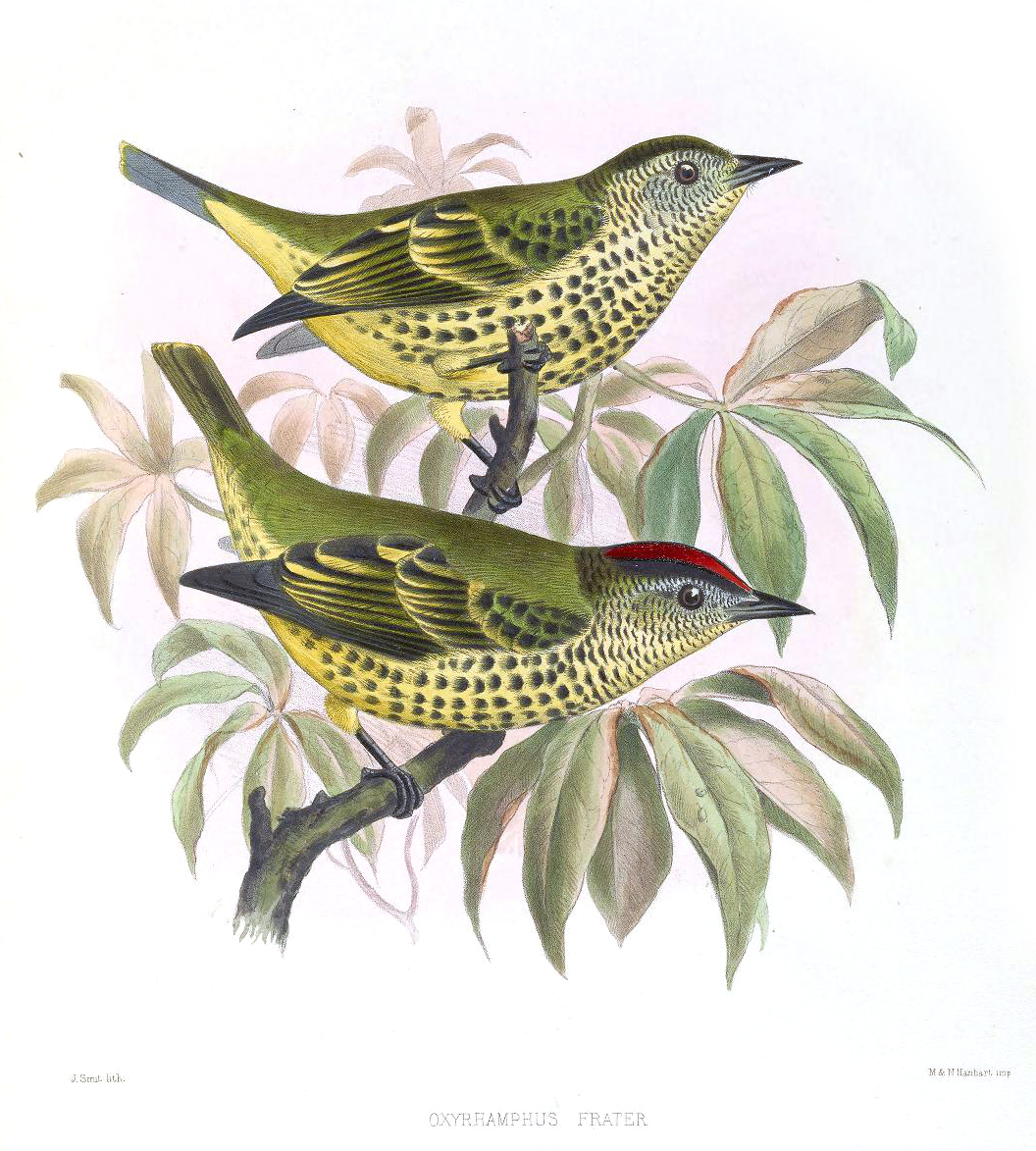 Oxyrhamphus frater = Oxyruncus cristatus frater[1]